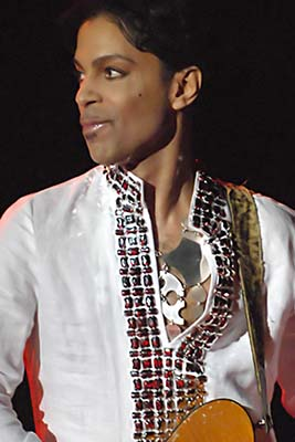 Prince performing at Coachella 2008.